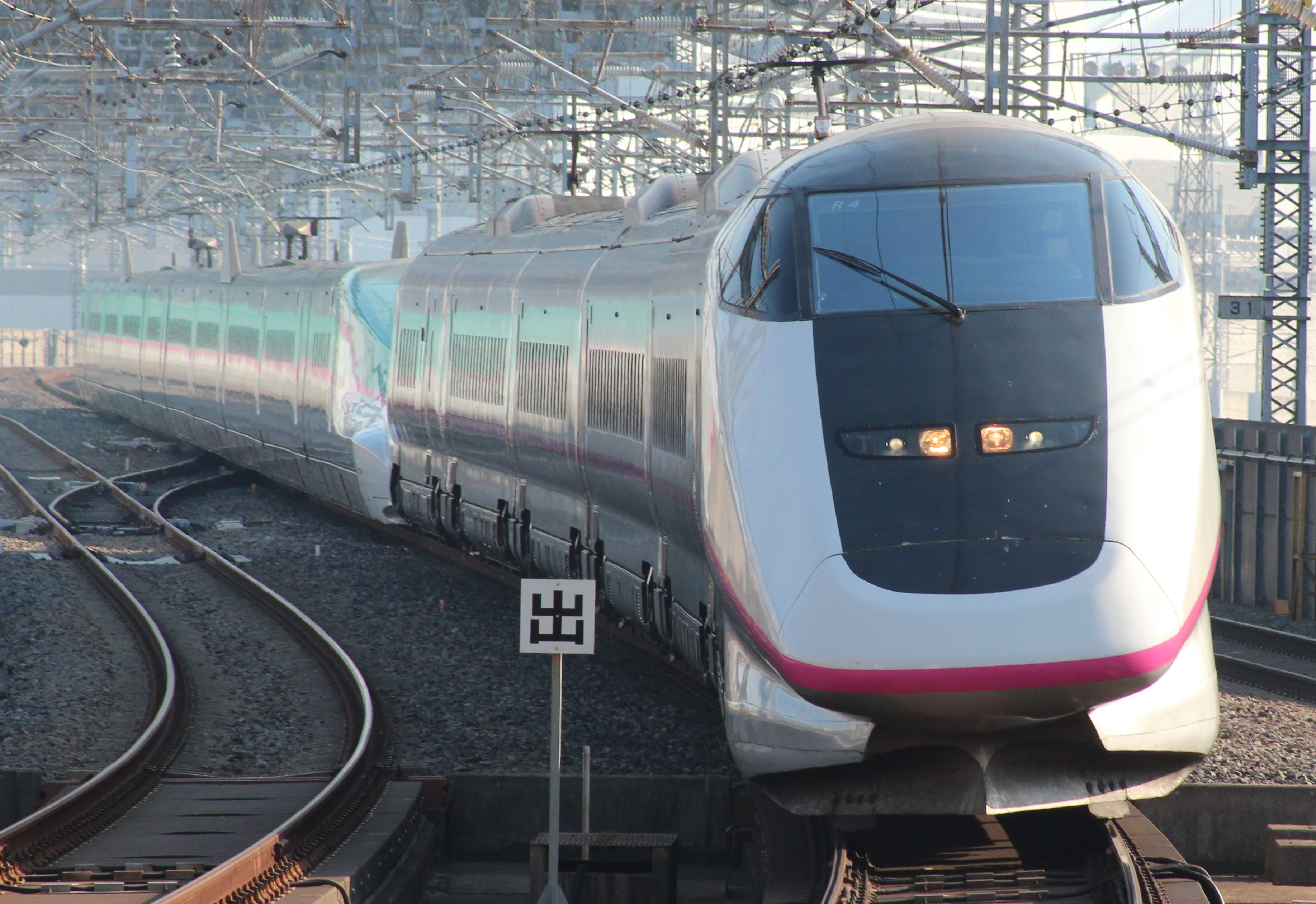 JR East E3 series shinkansen set R4 coupled to an E5 series set approaching Omiya Station